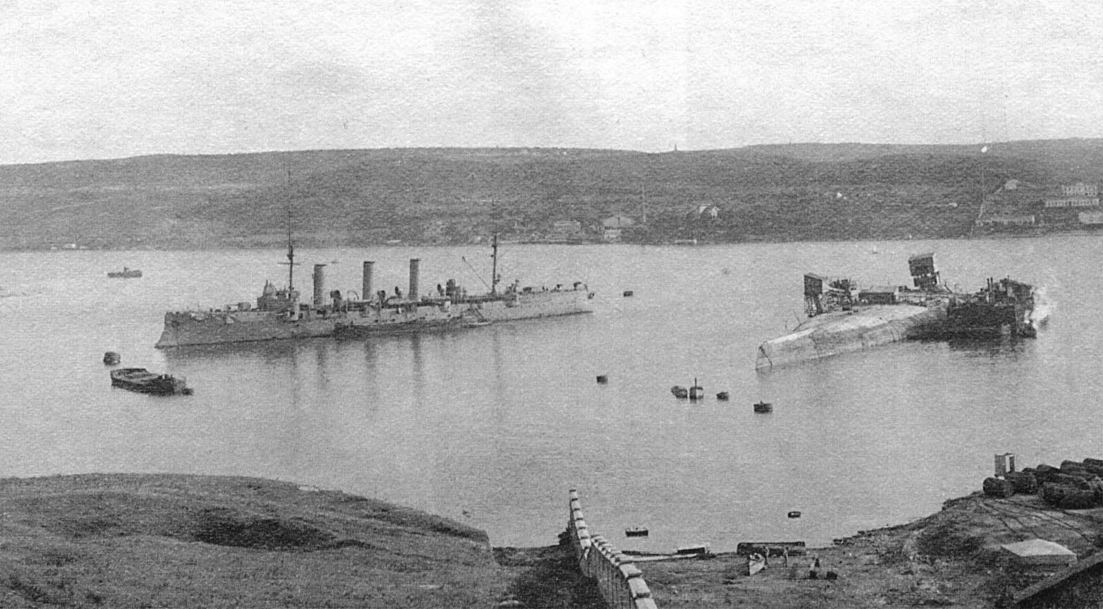 Ukrainian cruiser Ochakiv, former Imperial Russian cruiser Ochakov, later Kagul, General Kornilov, and battleship Imperatritsa Mariya in Sevastopol'.